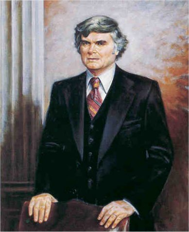 Official portrait of Al Ullman as chairman of the House Ways and Means Committee.